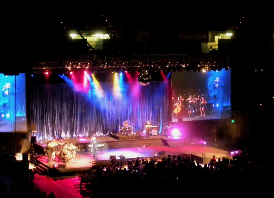 UCLA Spring Sing 2009, University of California, Los Angeles, California